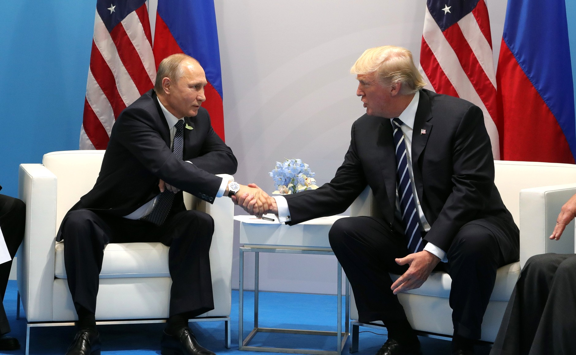 Vladimir Putin and Donald Trump meet at the 2017 G-20 Hamburg Summit